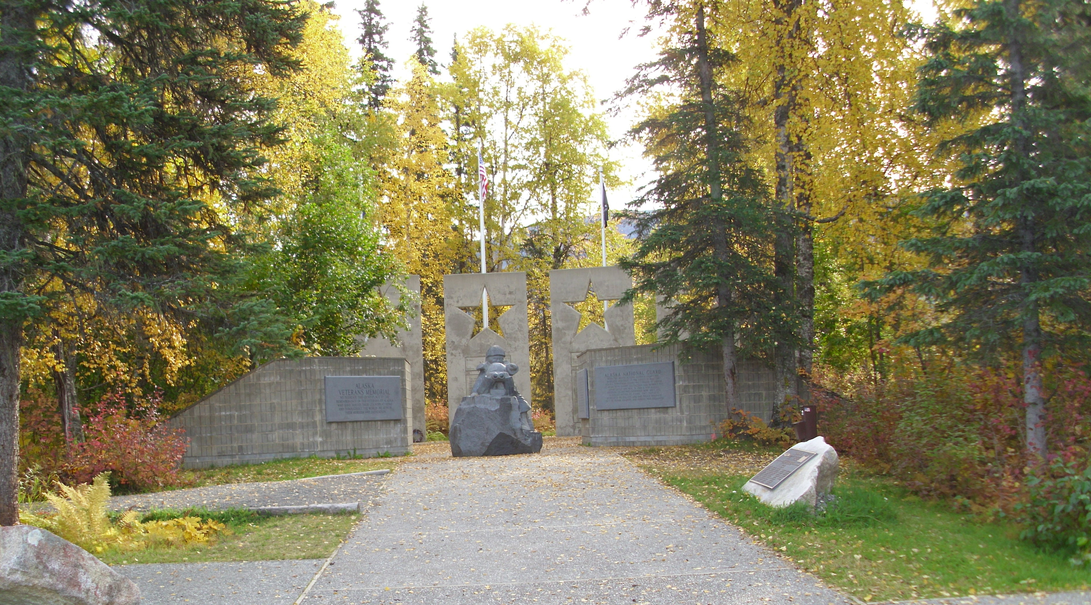 The Alaska Veteran's Memorial, located just off the Parks Highway at Byers Lake, Denali State Park, Denali Borough, Alaska